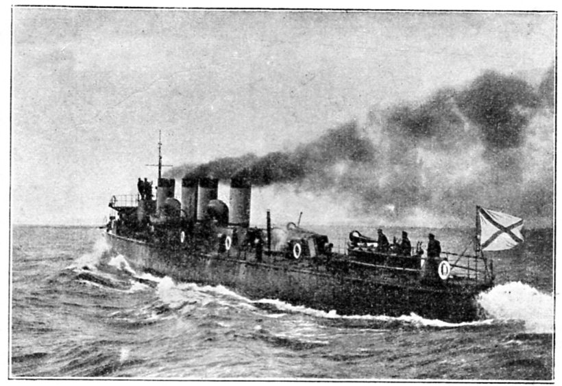 Destroyer Stereguschiy